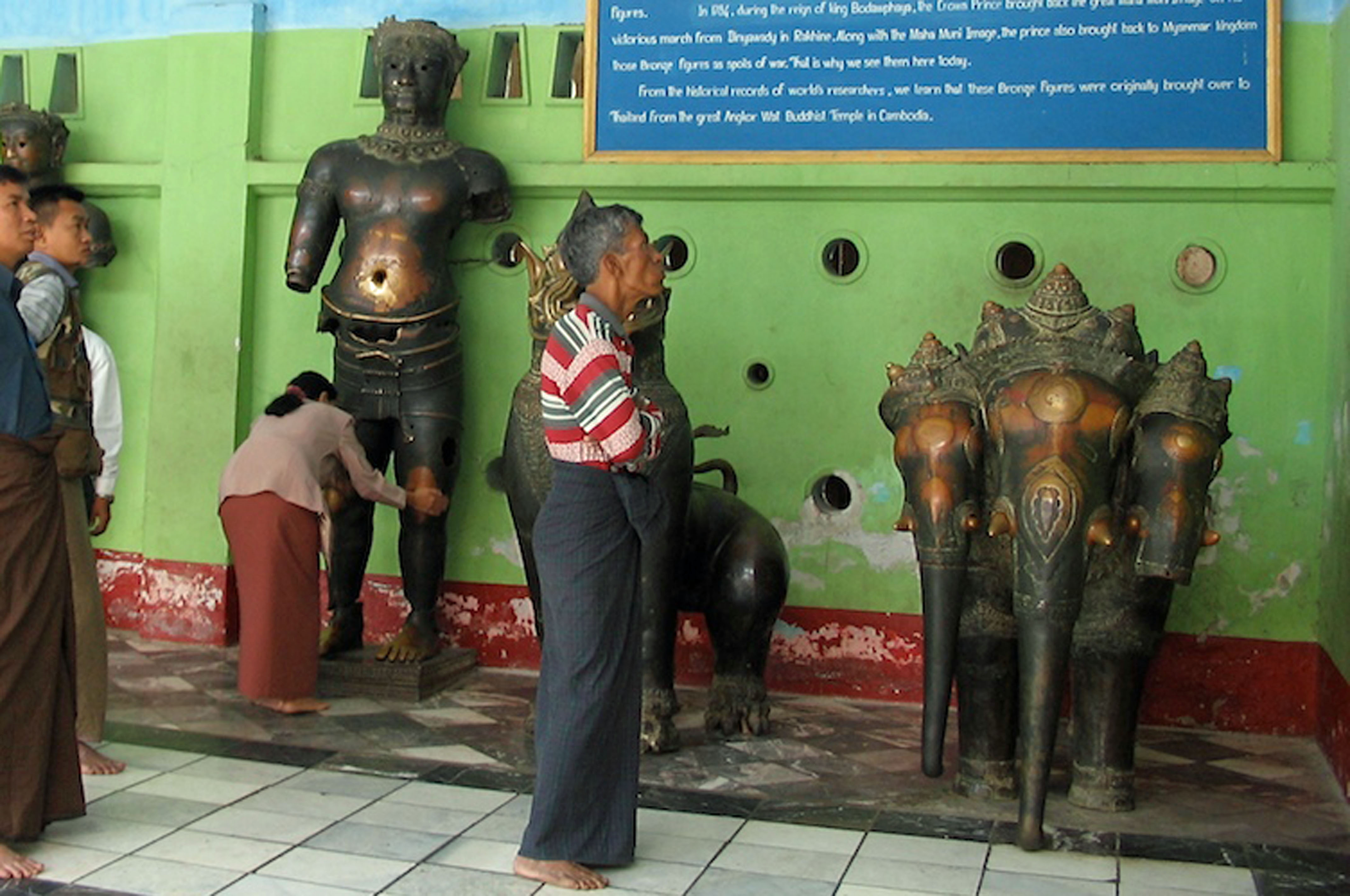 Close up of the figures from 'The large bronze statues.jpg'